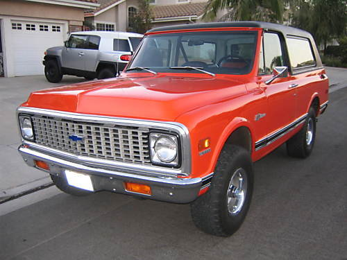 1972 Chevrolet K5 Blazer